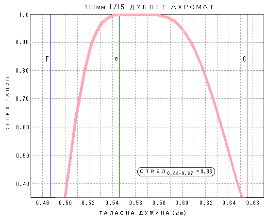 ЈЕДНОБОЈНИ И ВИШЕБОЈНИ СТРЕЛ РАЦИО ЗА ДУБЛЕТ АХРОМАТ